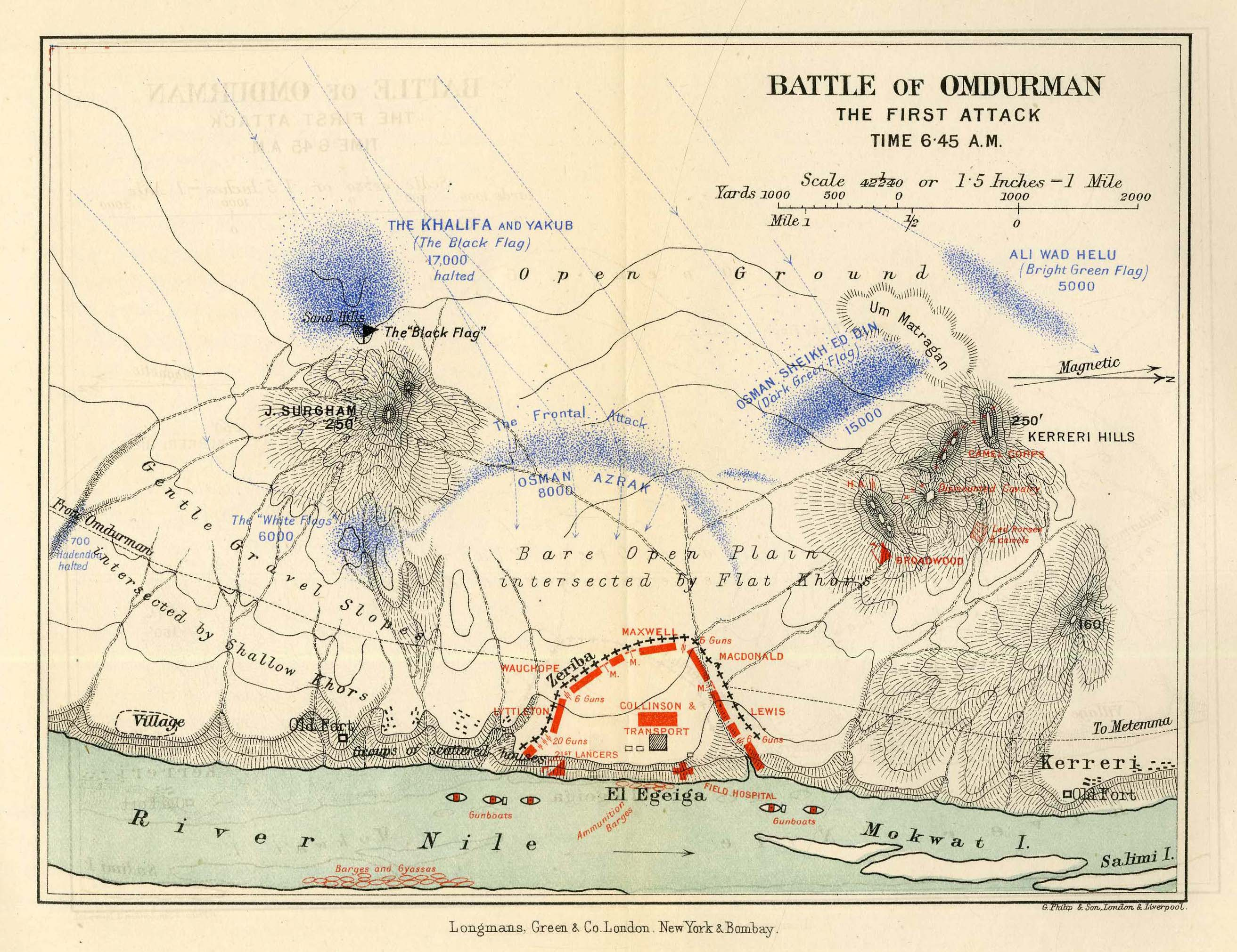 The Battle of Omdurman The first Attack 2nd September, 6:45 am